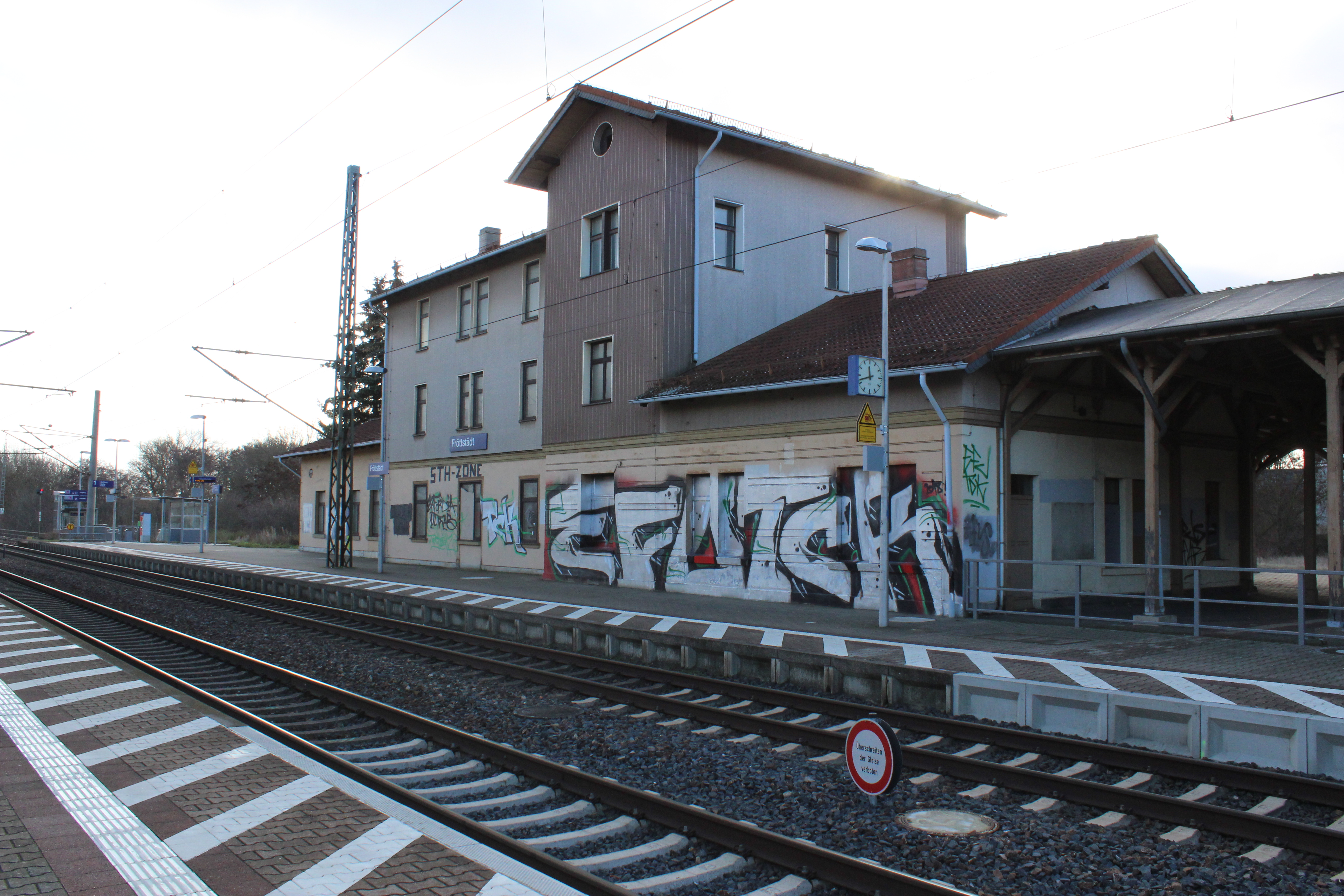 train station Fröttstädt, station building